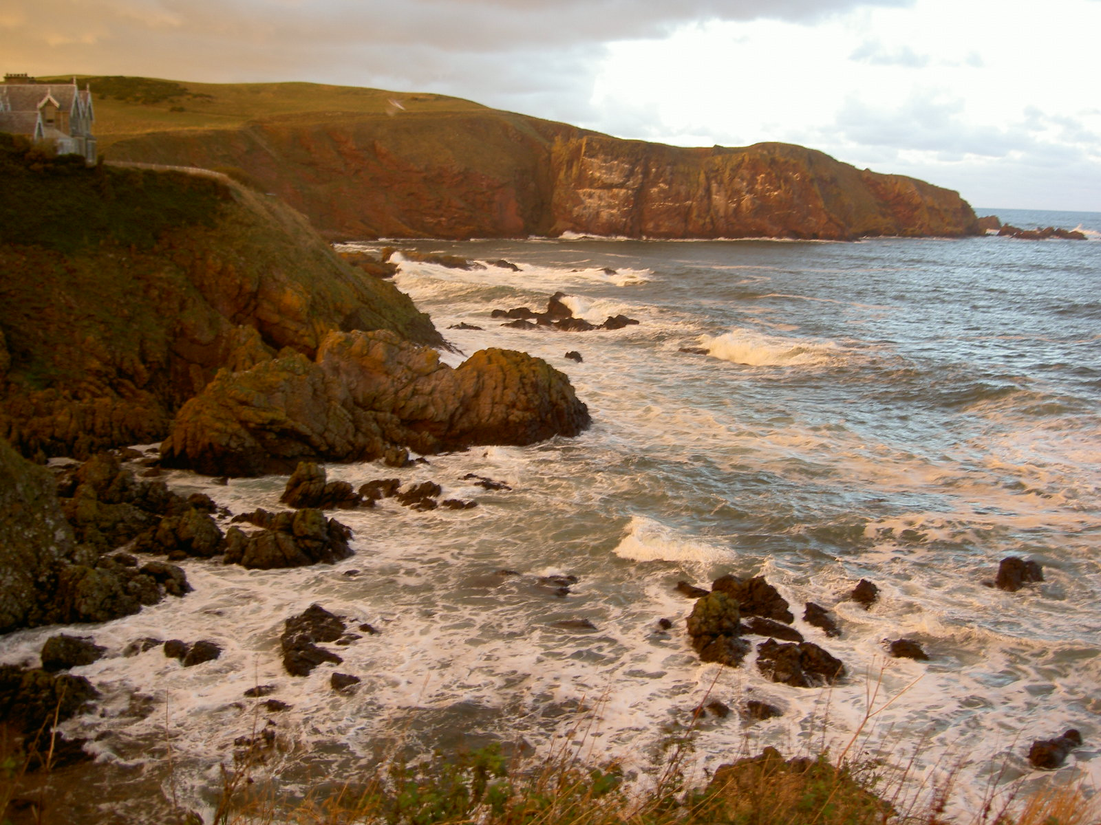 St. Abb's Head from St Abbs harbour